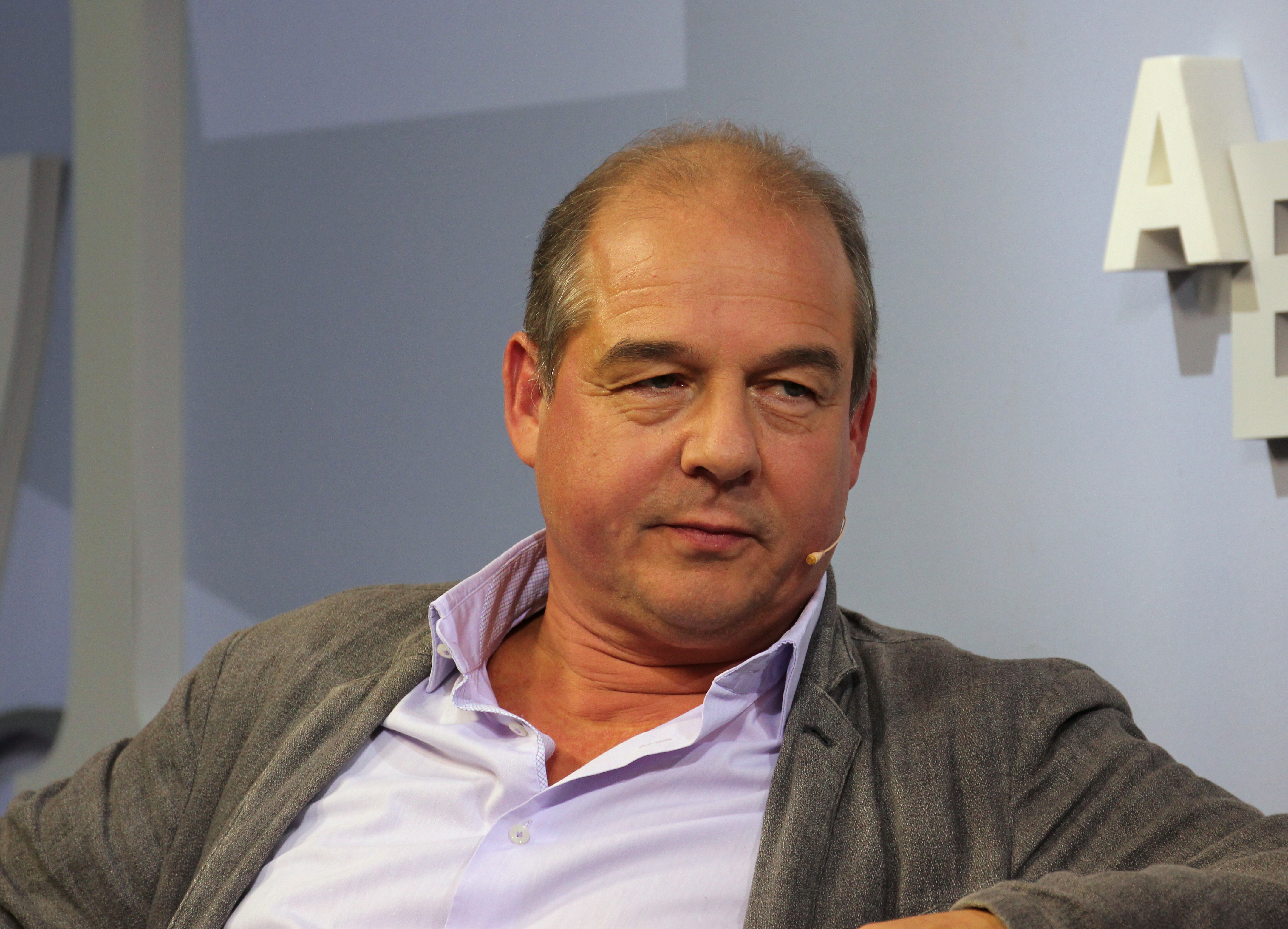 Karl-Heinz Ott at Frankfurt Book Fair 2015